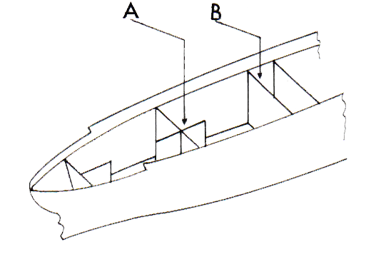 cleanup of linework